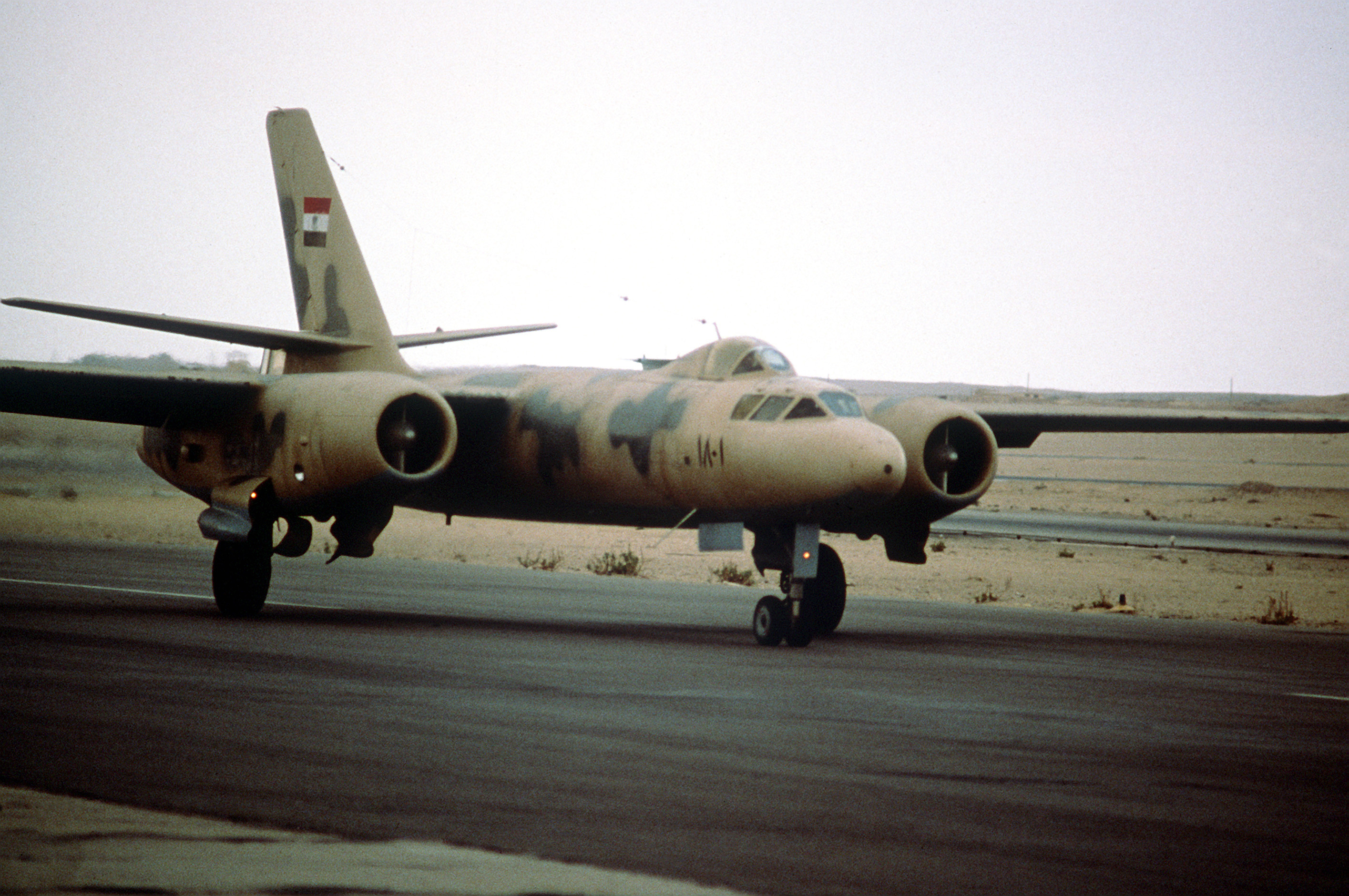 A right front view of an Egyptian (Soviet-built) Il-28U Beagle conversion trainer aircraft.